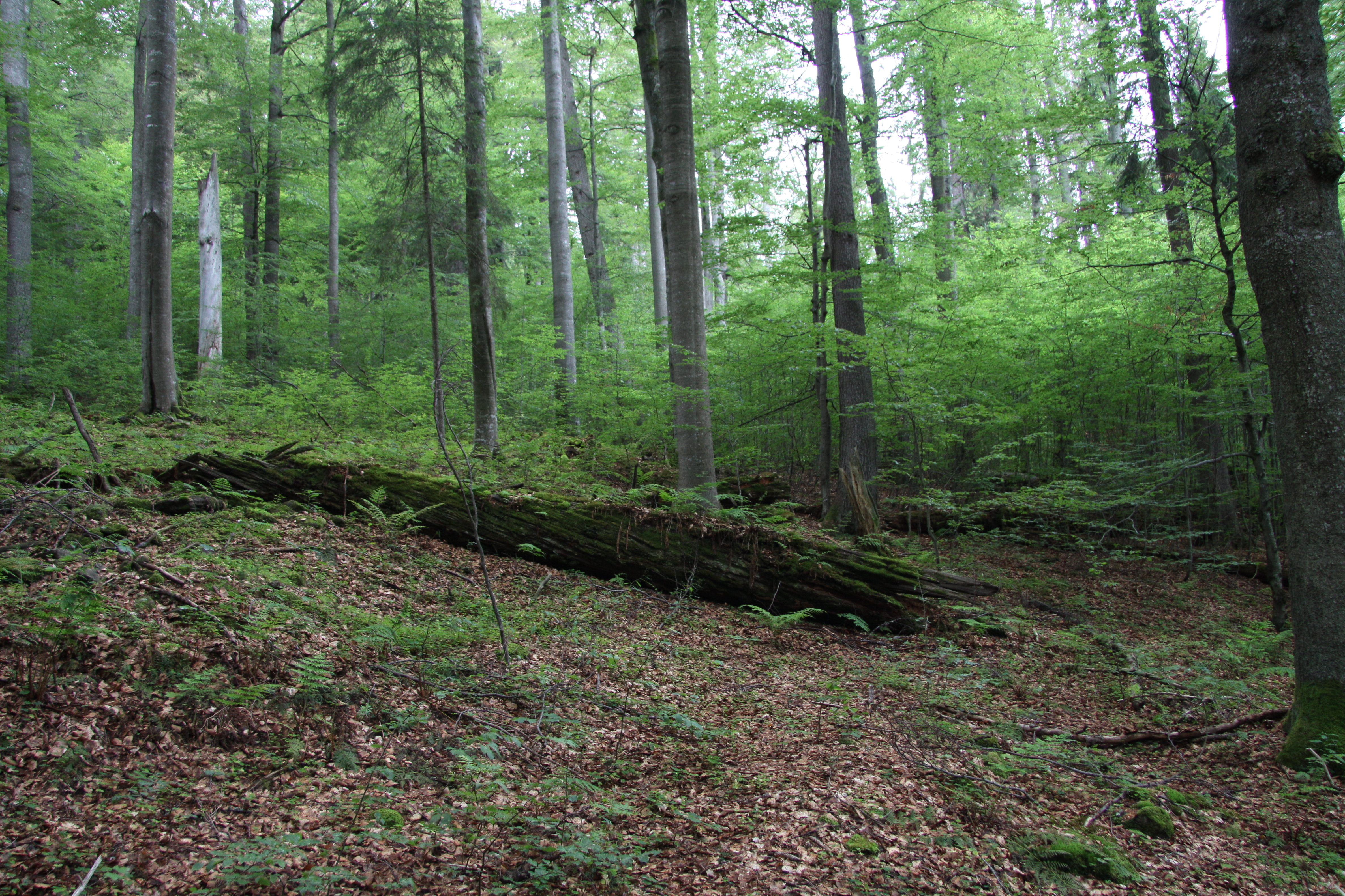 National nature reserve Boubínský prales during NS Boubínský prales trail, Prachatice District, Czech Republic - Google Maps - Google Earth